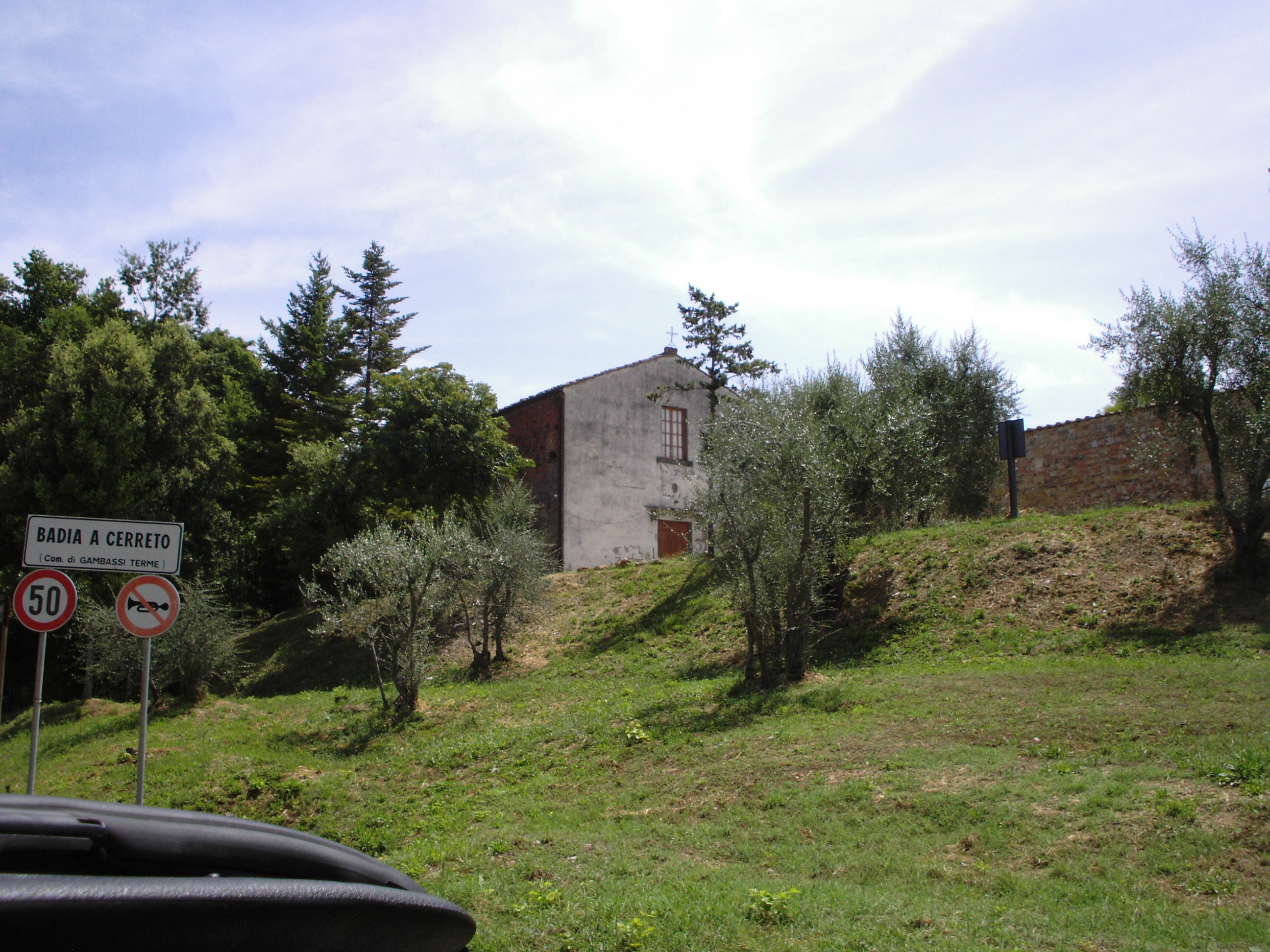 Gambassi Terme, Abbey of St Peter at Cerreto